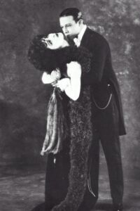 Rudolph Valentino and Alla Nazimova in the 1921 film version of Camille